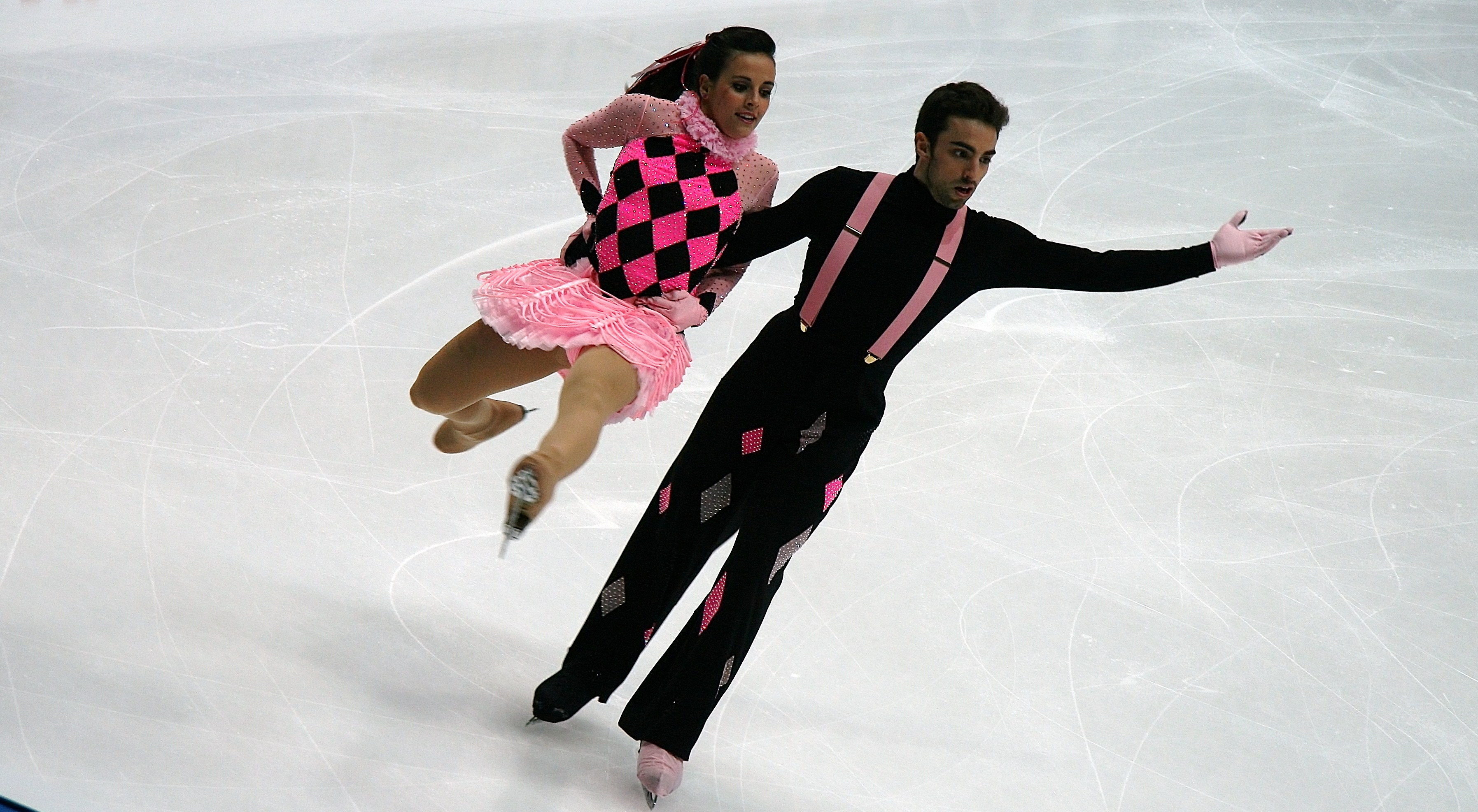 Sara Hurtado and Adrià Díaz at the 2011 World Figure Skating Championships